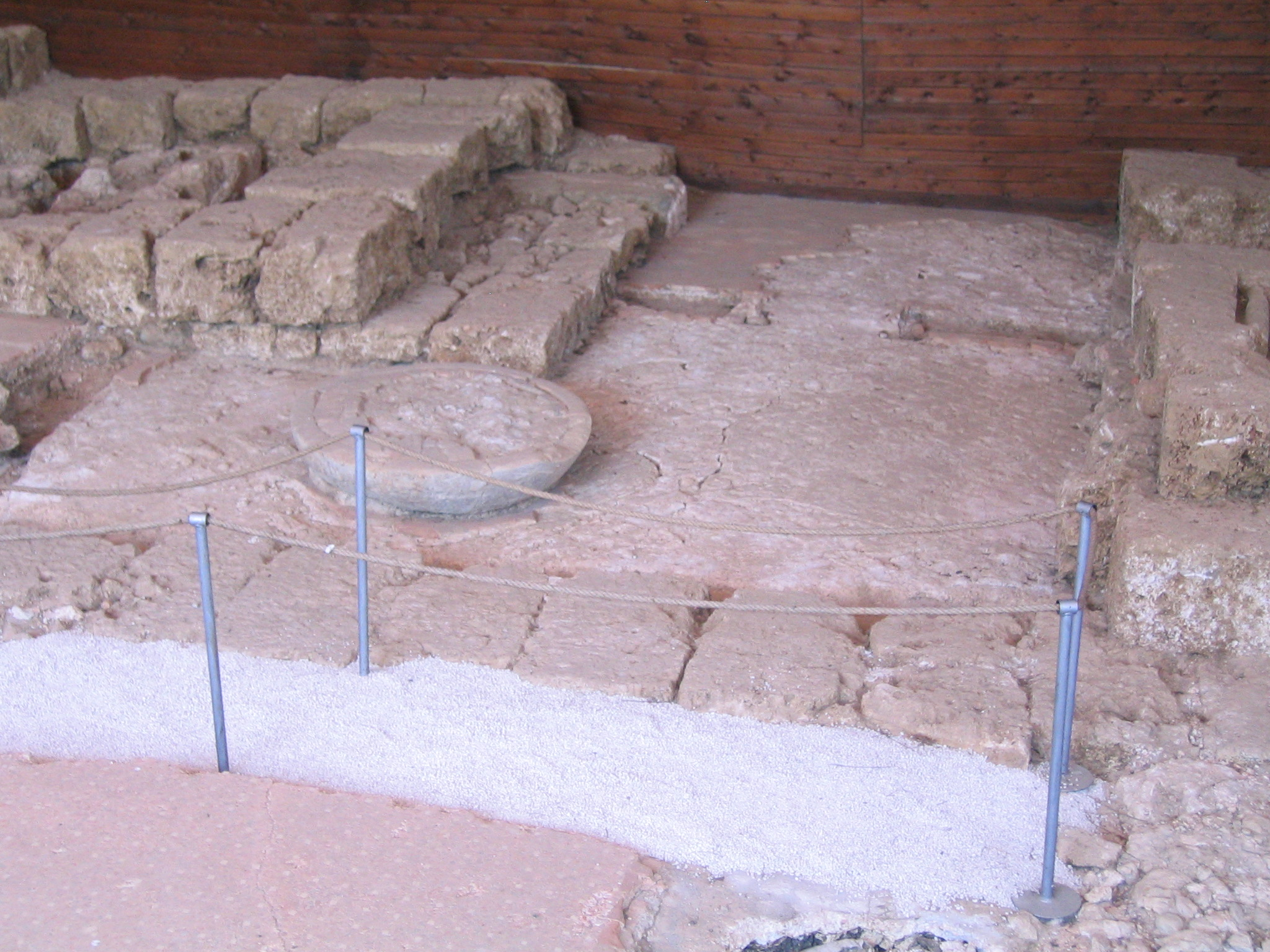 ancient Fregellae, Italy